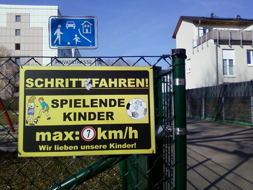 Increasing drivers attention by different visual communication techniques and graphics, here: "Drive slowly! Children playing nearby", figurative shaped. Site: Berlin-Karlshorst, Germany